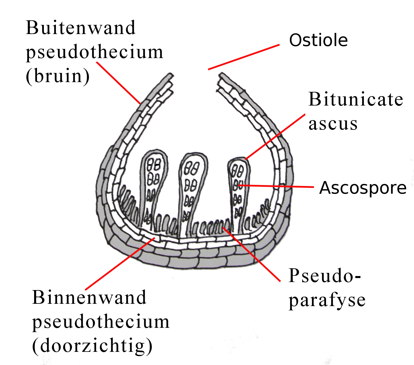 Pseudothecium Didymella bryoniae (schemat)